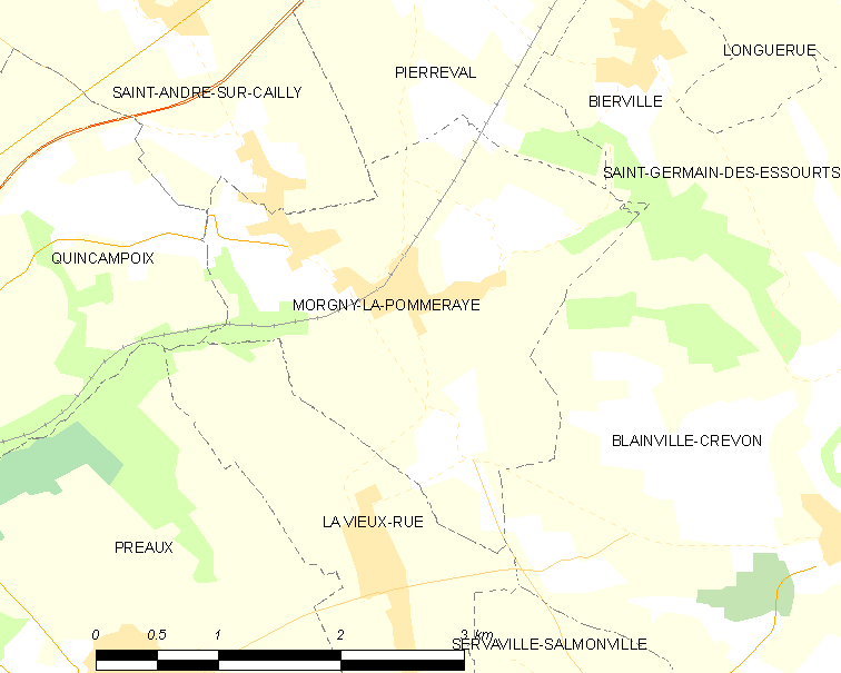 Map of French municipality Morgny-la-Pommeraye